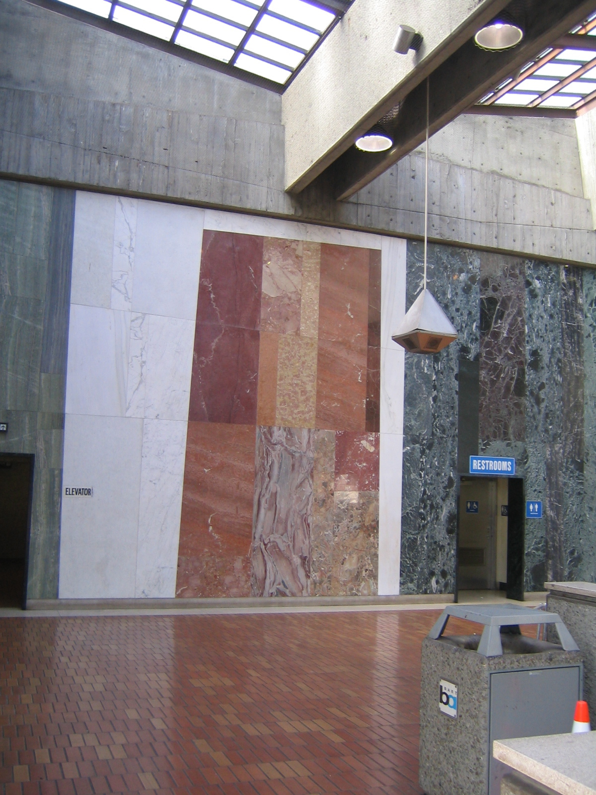 Glen Park Station: marble mural on the south wall of the station concourse by architect Ernest Born.